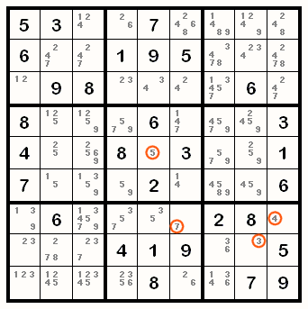 Summary Angus Johnson 01:33, 24 January 2006 Angusj 342x343 (8,077 bytes) (Author: Angus Johnson Webpage: 05:48, 23 January 2006 Angusj 342x343 (24,825 bytes) (Angus Johnson